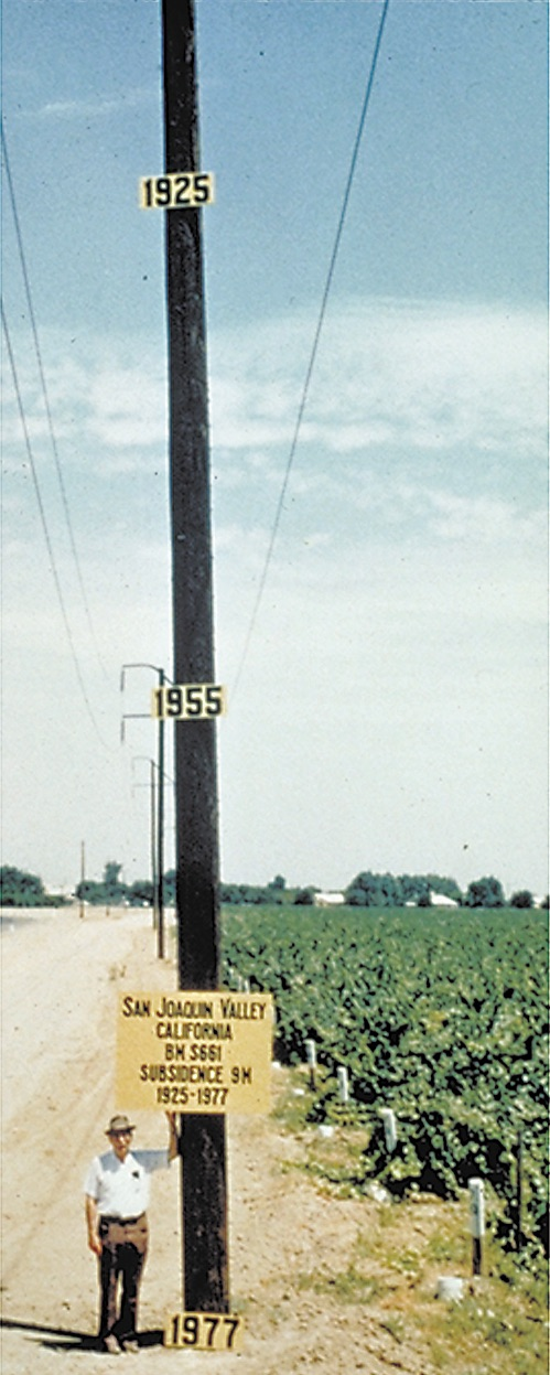 Pole showing location of maximum groundwater-induced subsidence in the San Joaquin Valley, CA. Distance from ground to 1925 marker ~28 feet.